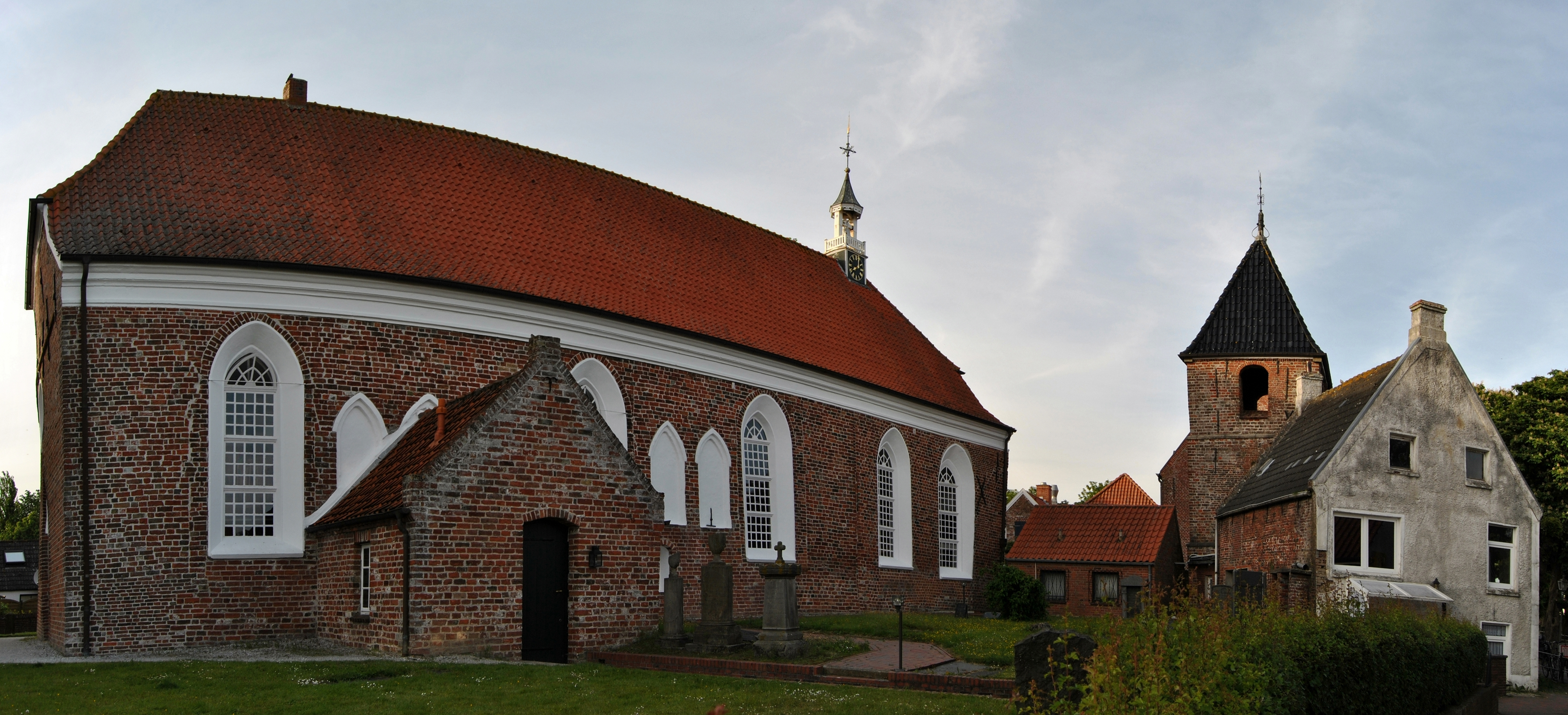 Panorama view from the southwest on the church of Greetsiel, Krummhörn, East Frisia, Germany. This image was created with Hugin. This photograph was taken with a Nikon D3000.